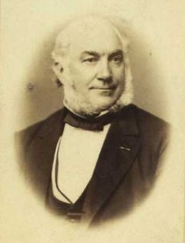 William Wain (1819-1882), Anglo-Danish mechanical engineer and industrialist, co-founder of Burmeister & Wain